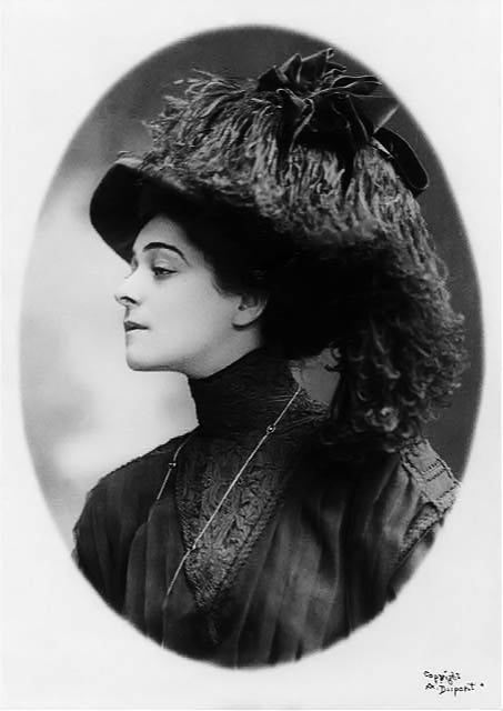 Alla Nazimova, 1879-1945, bust portrait, facing left.